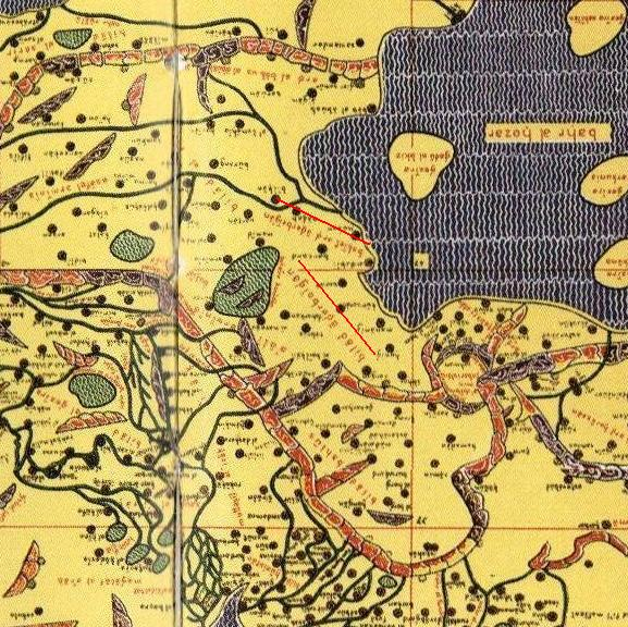 Azerbaijan location in Al-Idrisi map (1154). North and south of the map has changed.